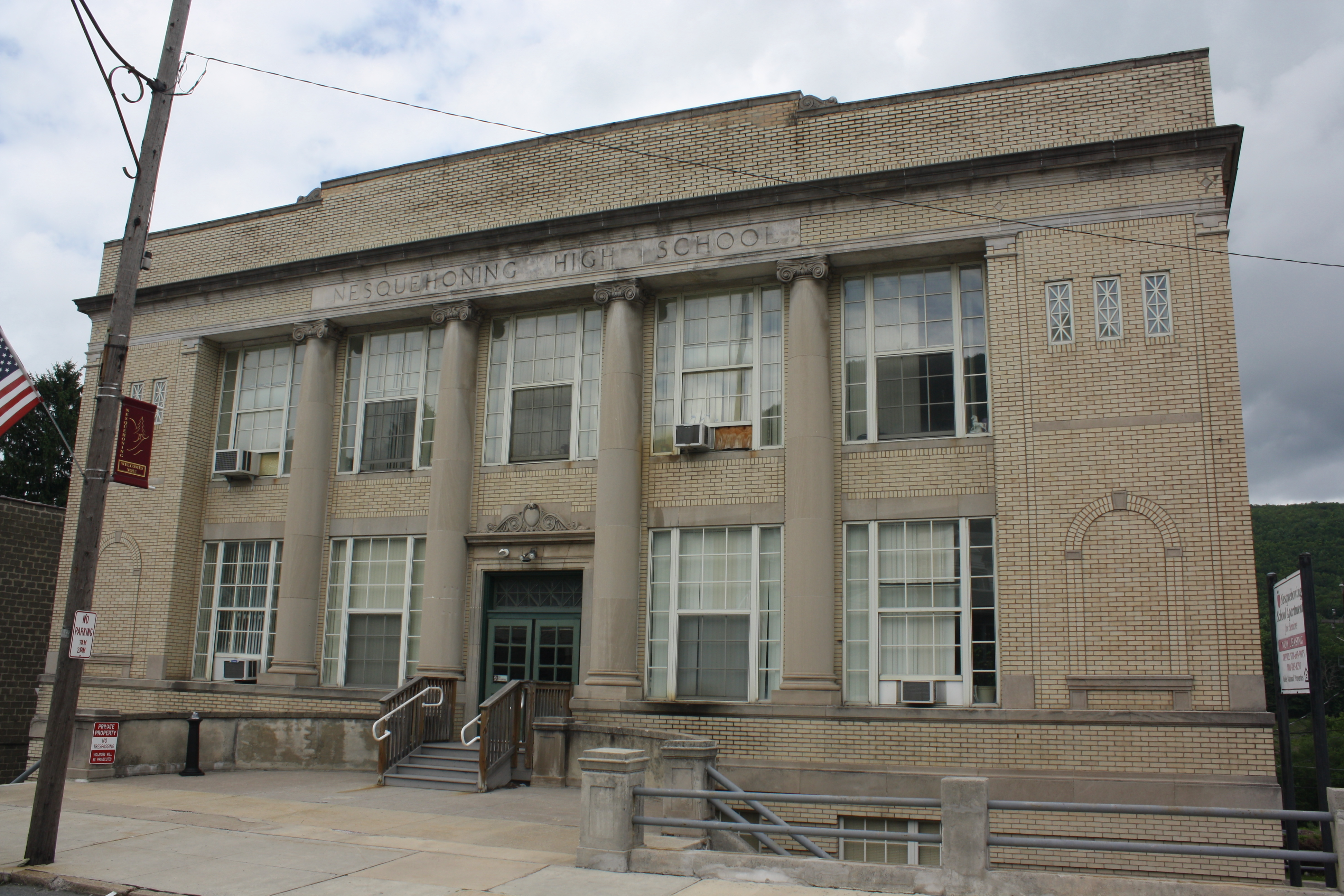 Nesquehoning High School is a historic high school located at Nesquehoning, Carbon County, Pennsylvania.